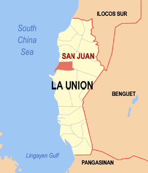 Map of La Union showing the location of San Juan